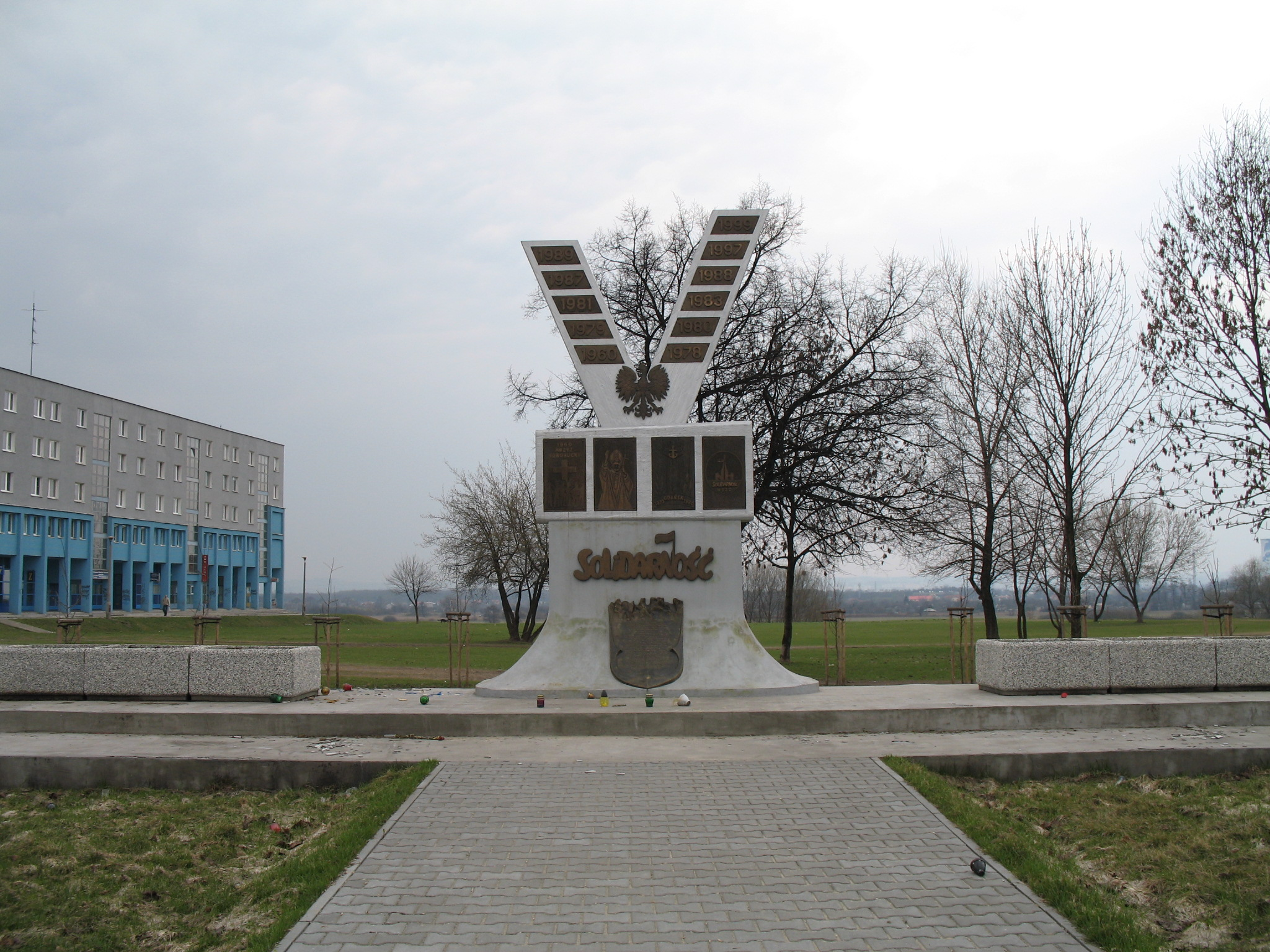 Monument of Solidarność, Kraków, Poland.